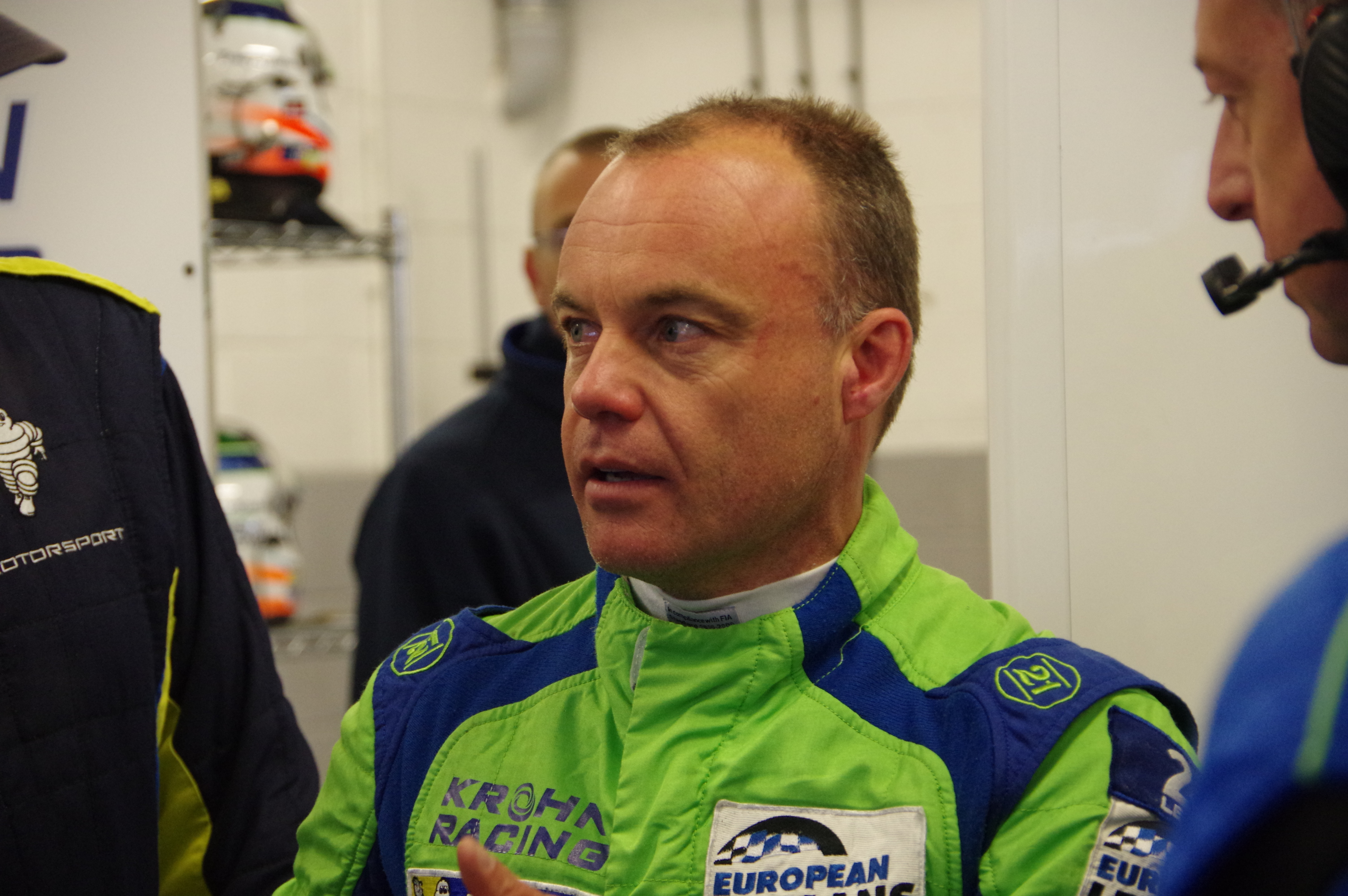 Niclas Jönsson, driver of Krohn Racing's Ligier JS P2 Nissan